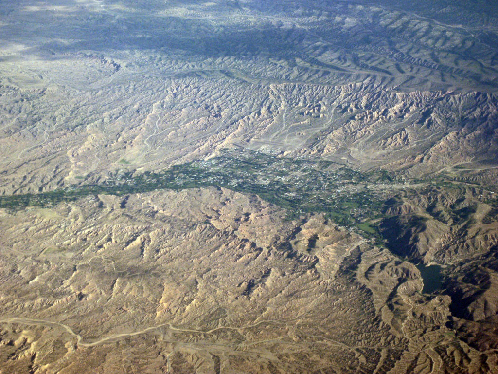 Oblique air photo of Chimayo, New Mexico and vicinity, including lake Santa Cruz in lower right. Facing north. 1 August 2011. Color/contrast enhanced in Photoshop.